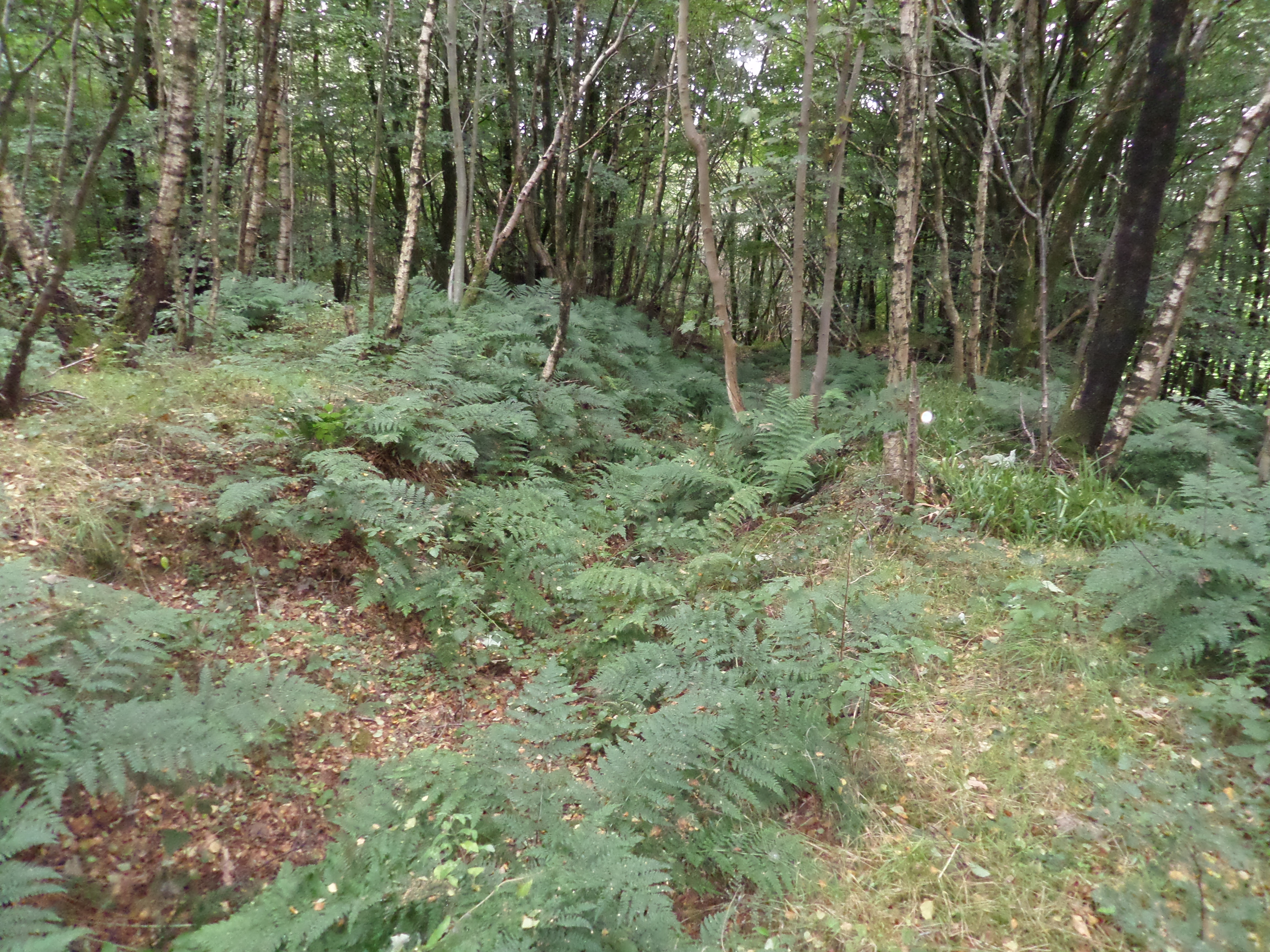 Coilsfield Deer Hay, Tarbolton - ditch system with parallel banks, South Ayrshire, Scotland.